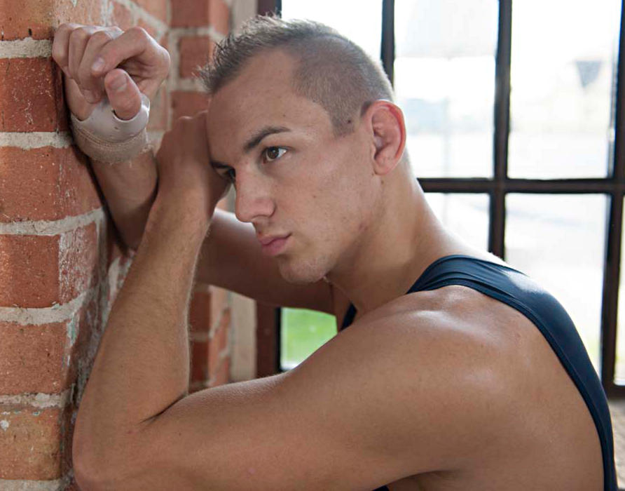 German wrestler Frank Stäbler (Staebler)